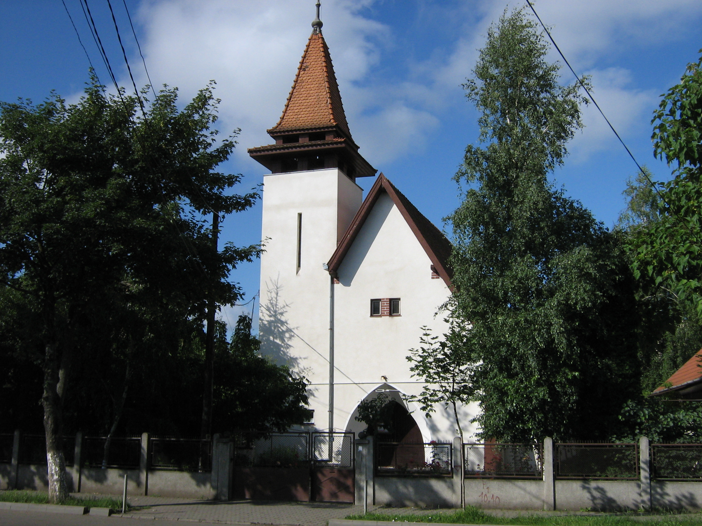 Reformed church at Voinicenilor street in Targu Mures